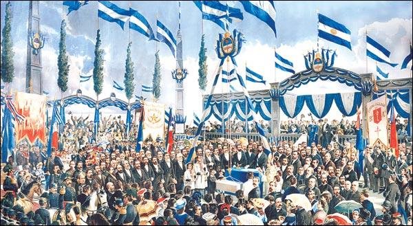 Drawing of the foundation of La Plata.